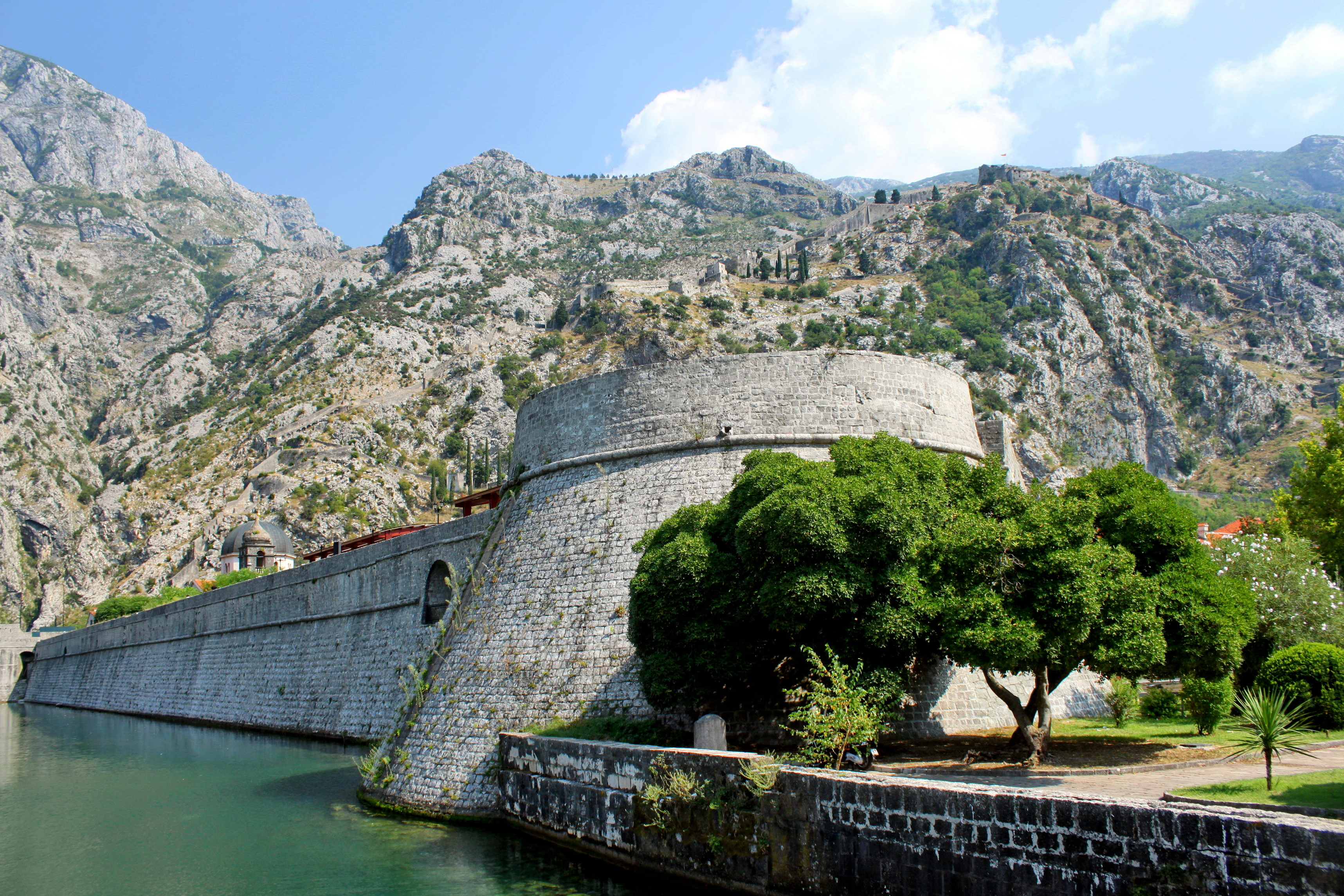 Kampana Tower - citadel within the city walls. Kotor, Montenegro.